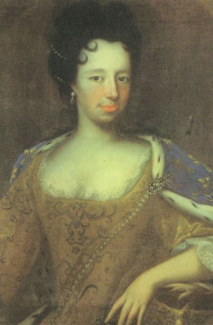 Anne Marie d'Orléans (1669-1728) wearing a mantle with the Fleur de Lys of France